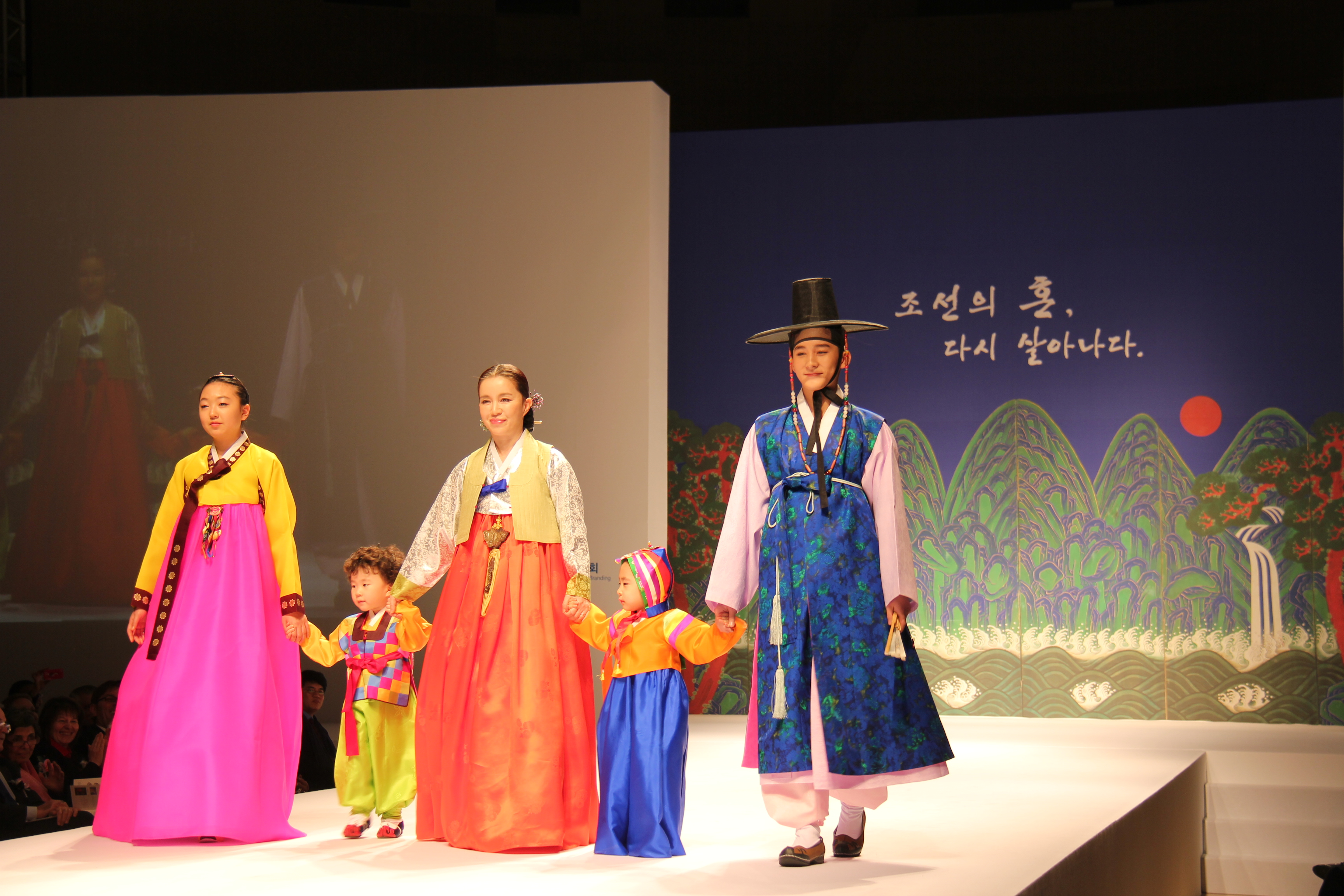 A special performance to showcase Korea's traditional music and dress is being held at the National Museum of Korea.